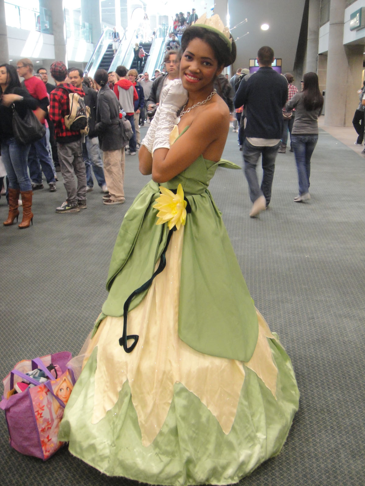 photo 2011 Pop Culture Geek taken by Doug Kline If you're interested in higher resolution versions of my images, contact me via my profile page.